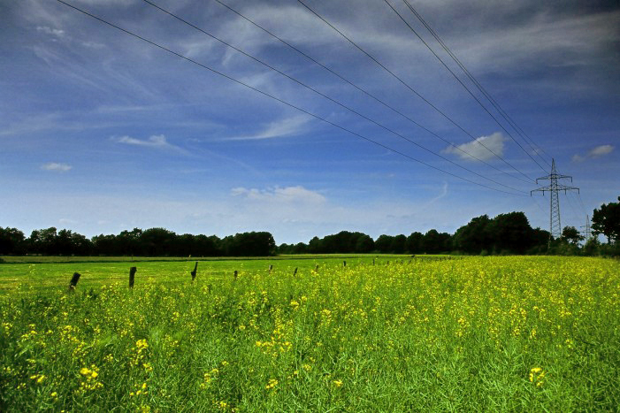 Rape Field in Schleswig-Holstein